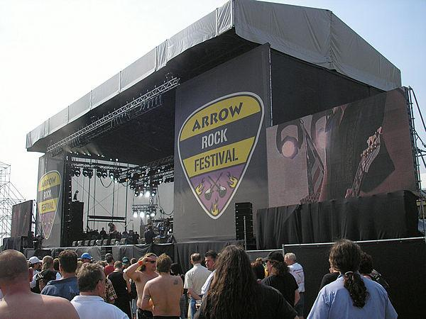 Arrow Rock Festival main stage, 2006